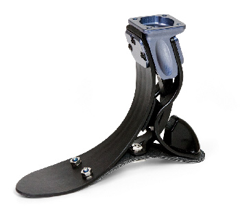 The first to incorporate Integrated Spring Technology (iST®), the Soleus provides natural movement with a progressive, 3-staged response and superior range of motion.